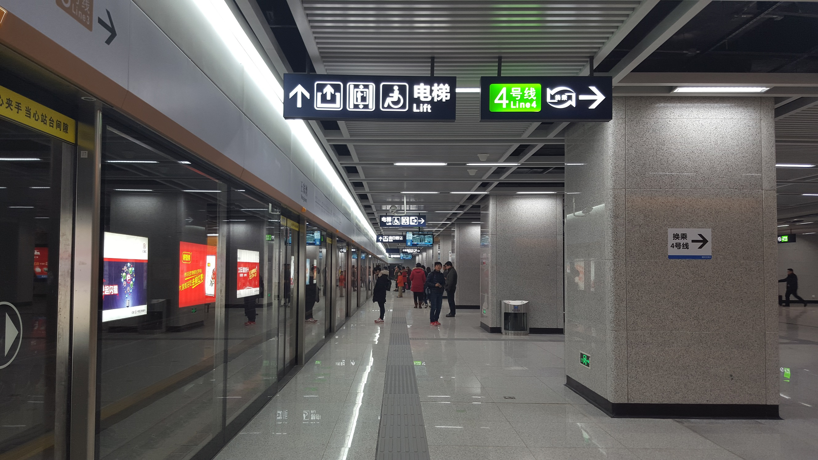 Platfrom of Wangjiawan Station, Wuhan Metro Line 3